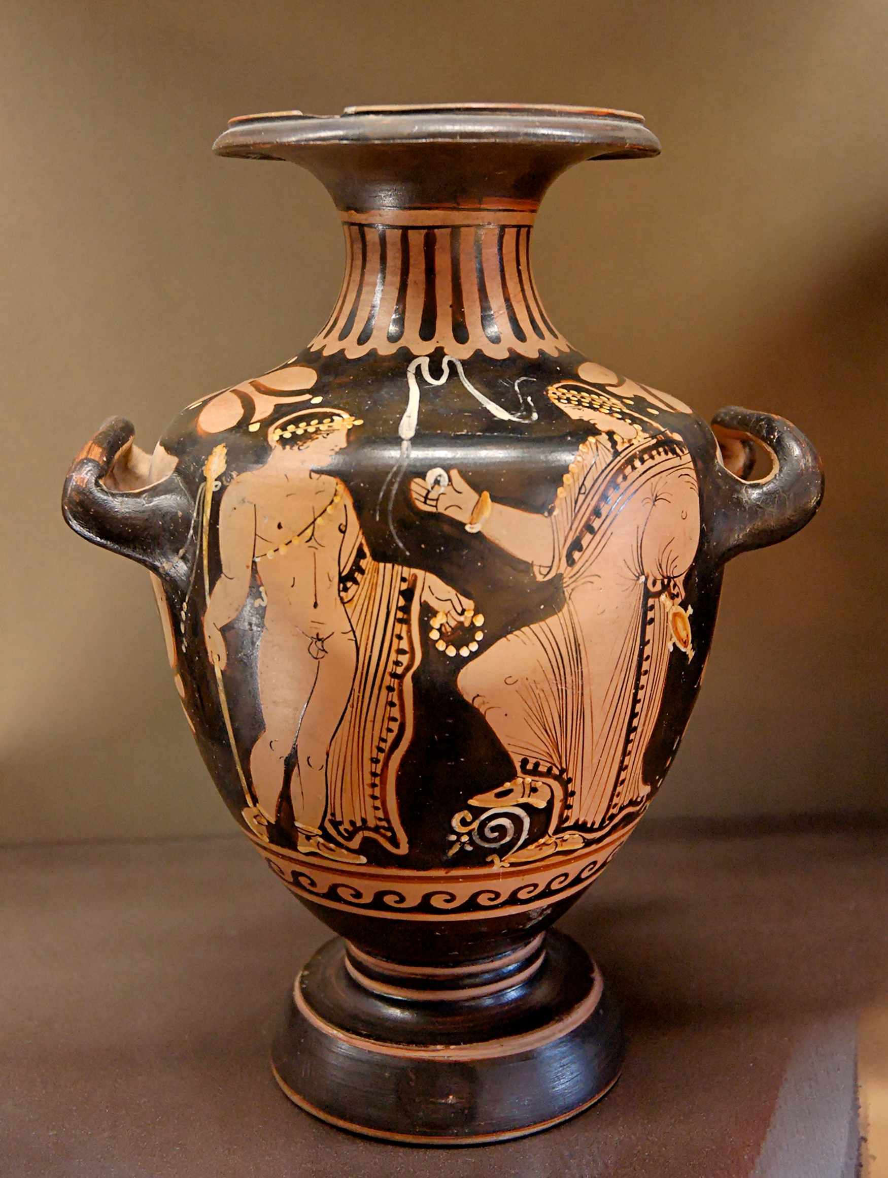 Satyr and woman. Red-figure hydria, 360–350 BC. From Paestum.